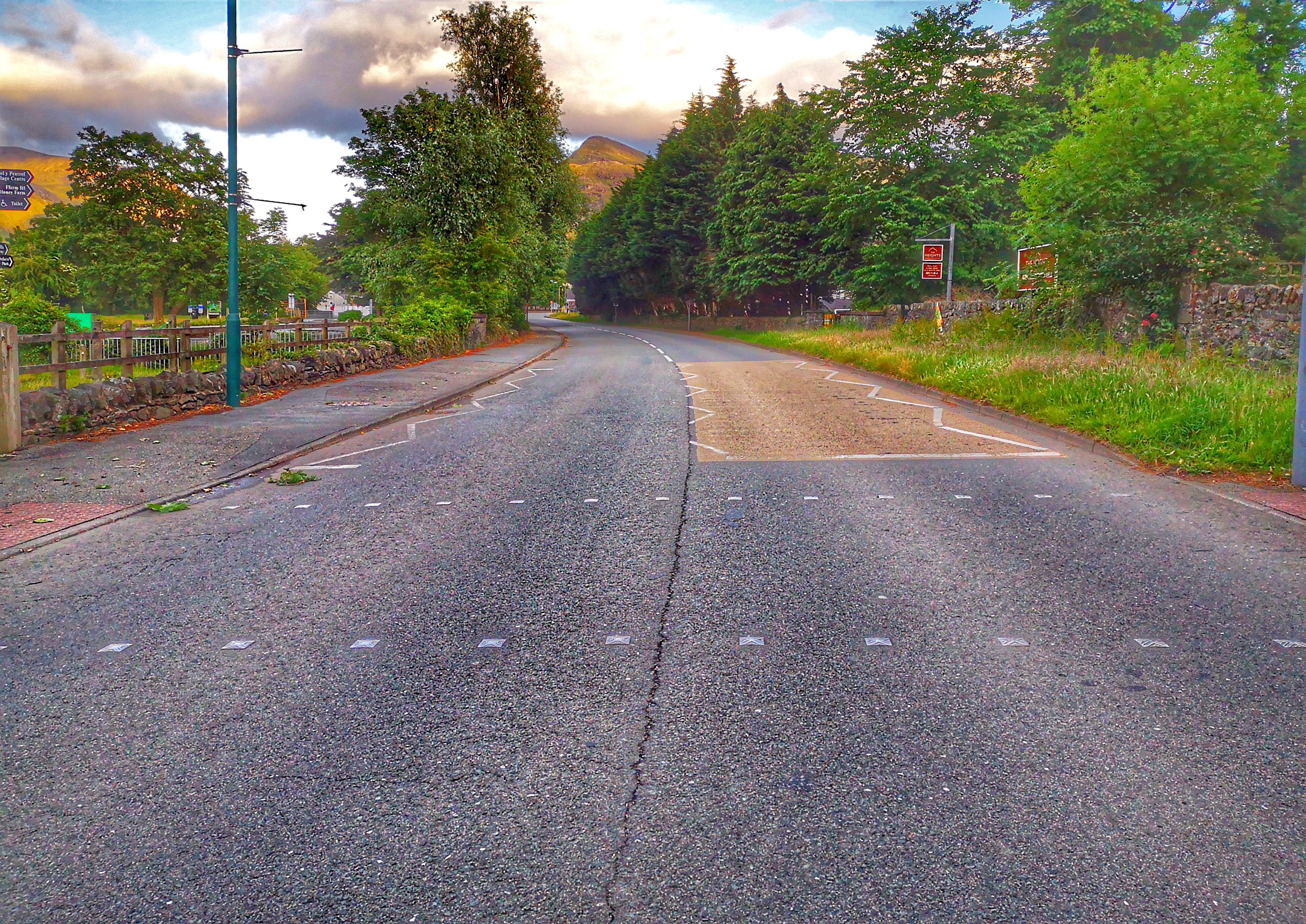 Llanberis by pass no cars or people during the coronavirus - 19.